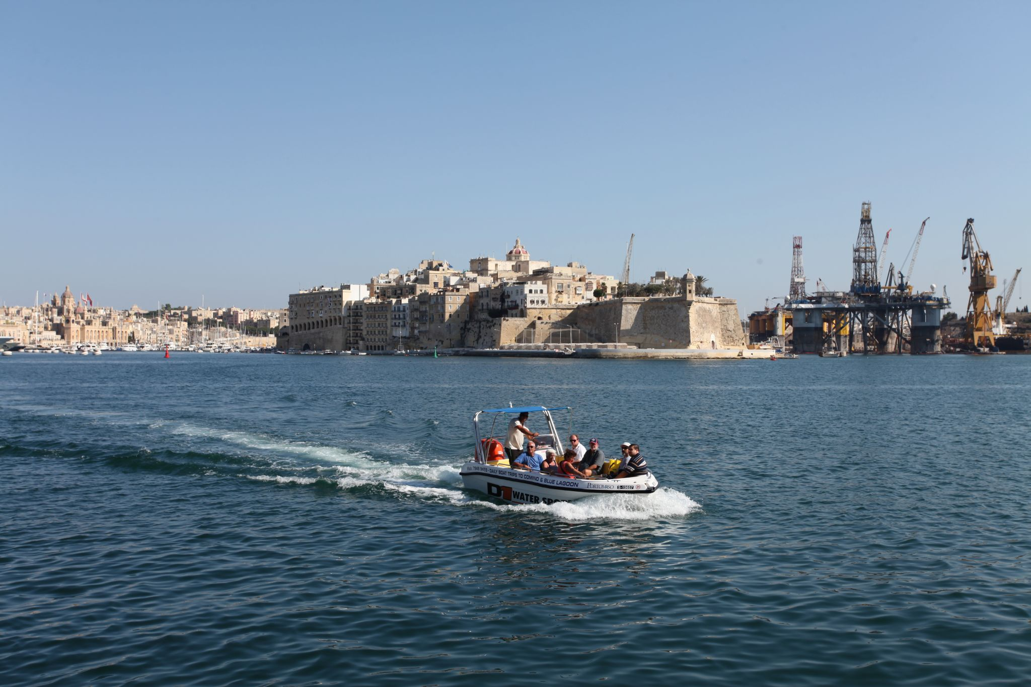 Water taxi in the Grand Harbour, Malta